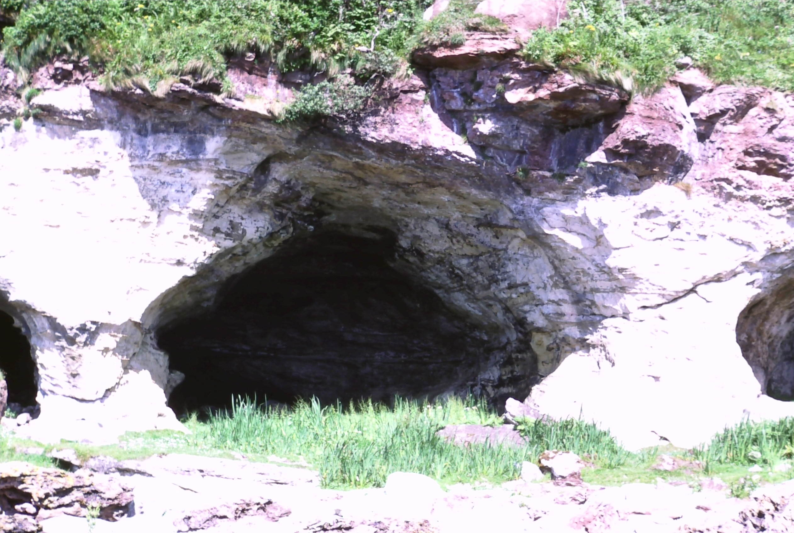 The "King's Cave" (reputedly a refuge of King Robert the Bruce), one of a series of caves near Blackwaterfoot, Isle of Arran